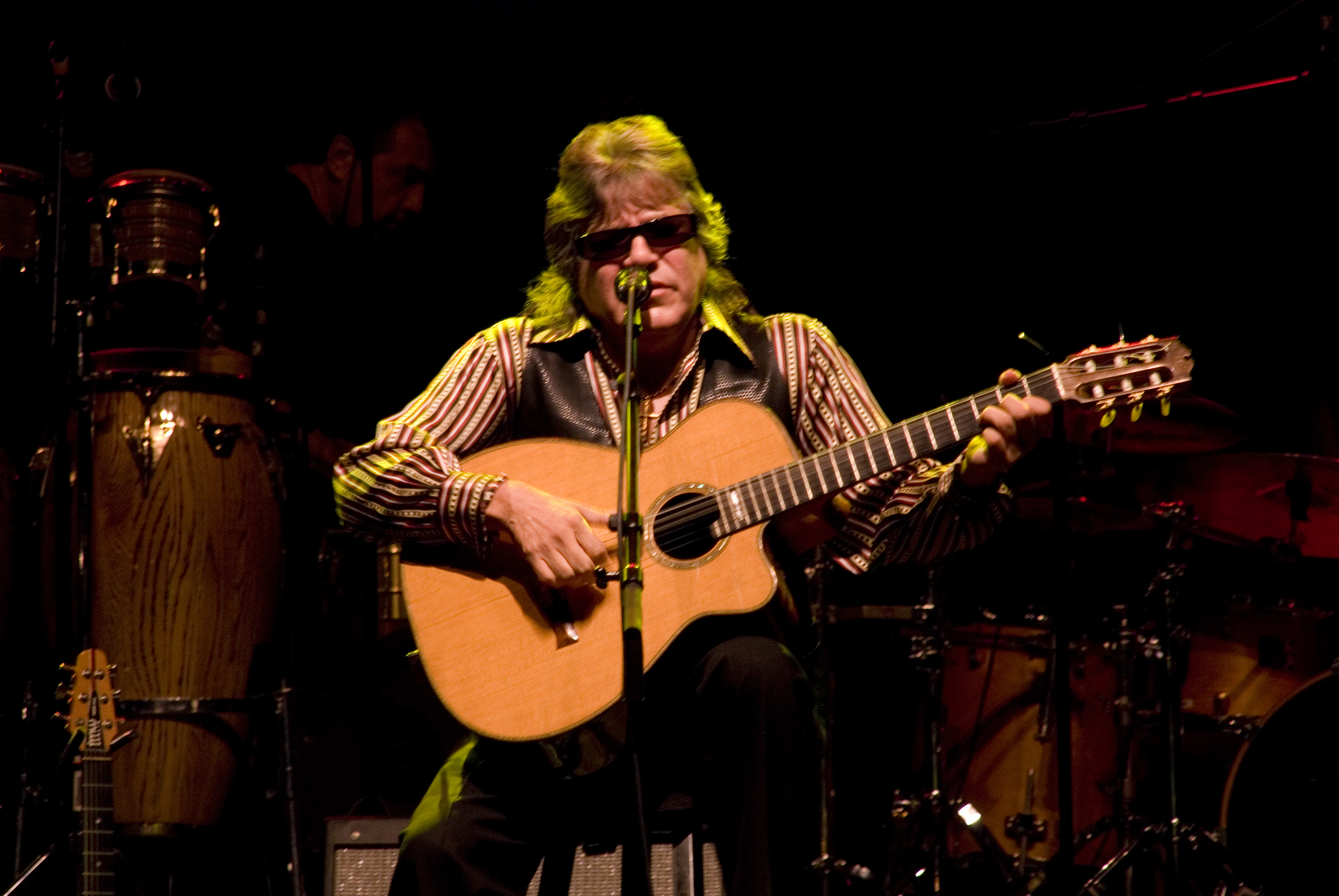 José Feliciano (born September 10, 1945) is a Puerto Rican singer and guitarist. He was left permanently blind at birth due to congenital glaucoma. Feliciano overcame the effects of this impairment to score many international hits.